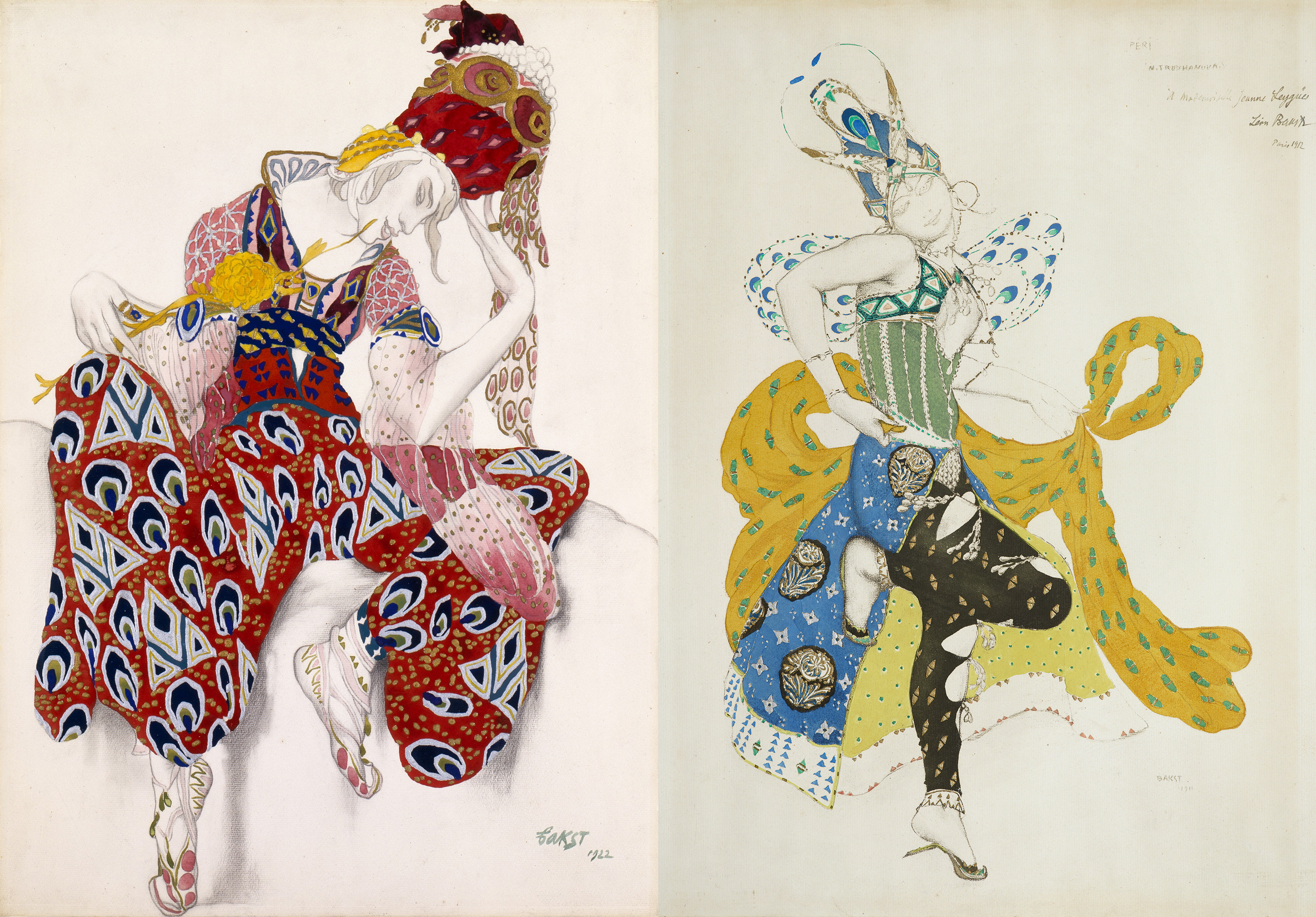 Collage La Péri (Dukas)